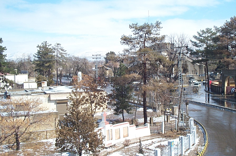 Jinnah Road after it snowed, Quetta